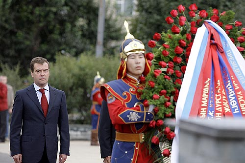 ULAN BATOR. Wreath-laying ceremony at the monument to Georgy Zhukov.